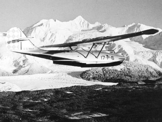 A U.S. Navy Consolidated PBY-2 of Patrol Squadron VP-17 in flight over Alaska.